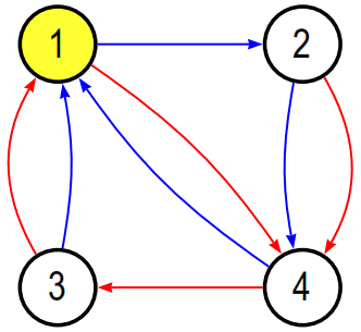 Synchronizing word for vertex 1: BRB